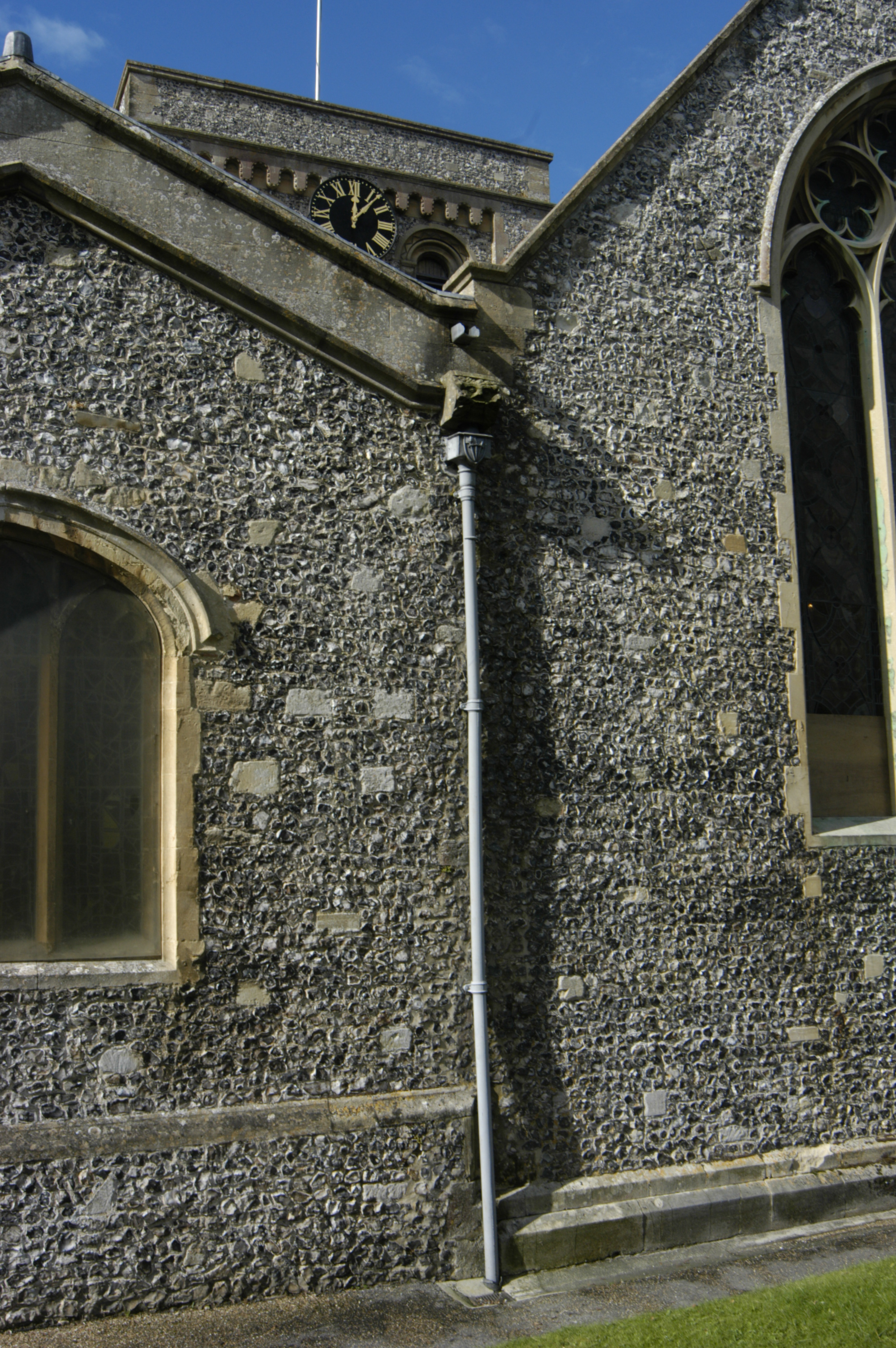 Photo (taken by me, R. de SalisRodolph (talk) 00:16, 12 October 2014 (UTC)) of the eastern end of St. Mary's church, Kingsclere, Hampshire, UK, October 2014.